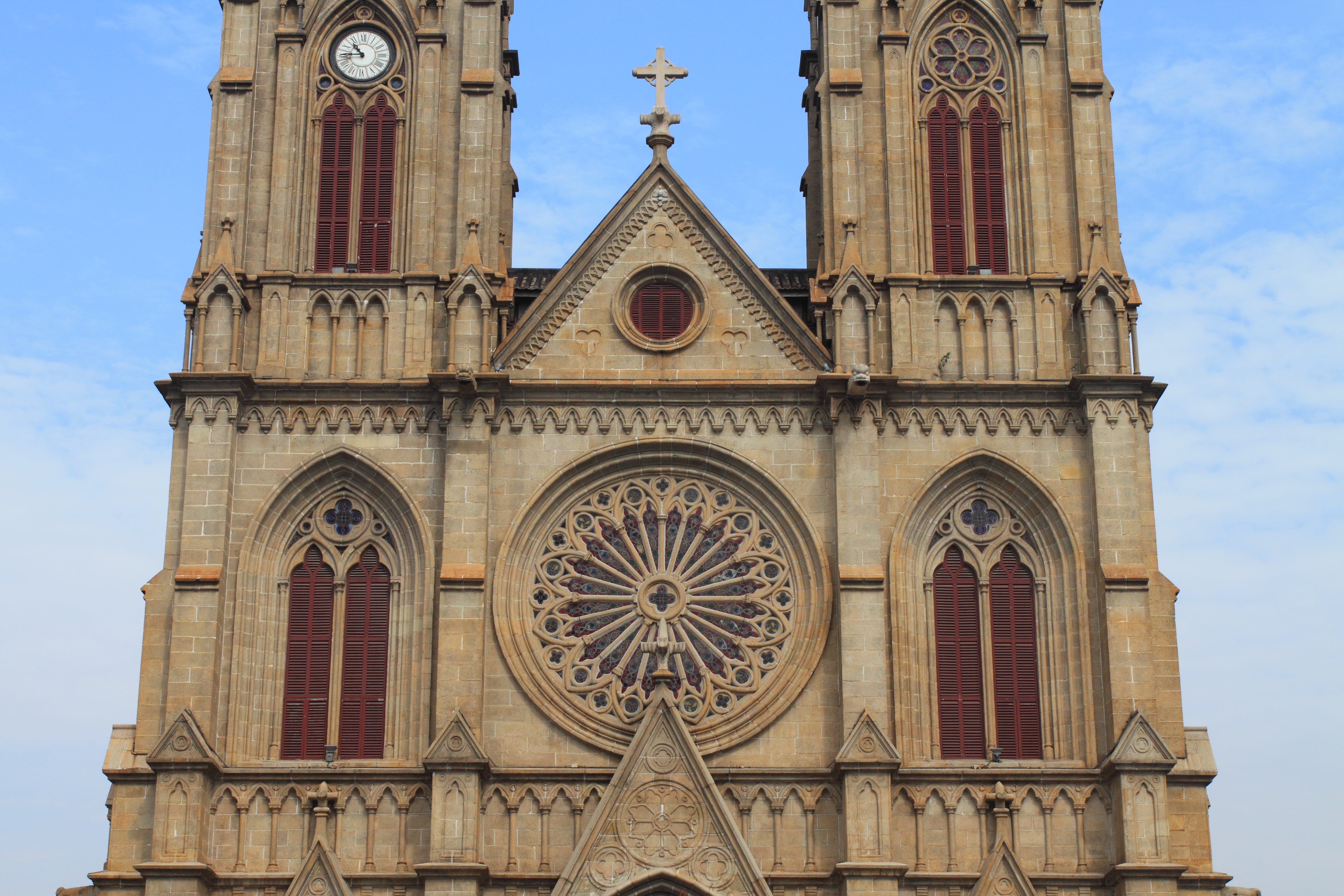 Sacred Heart Cathedral of Guangzhou，in Guangzhou, Guangdong, China.